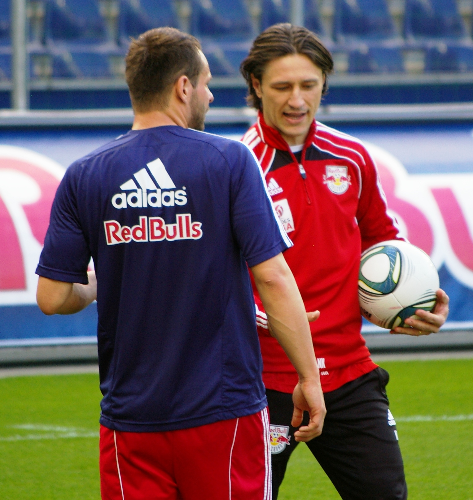 assistance coach FC Salzburg